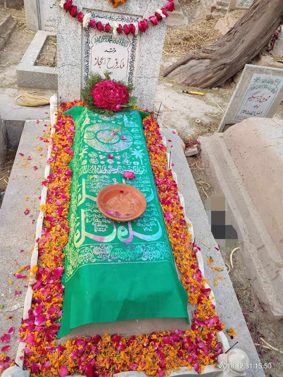 Pakistani actress Nadra grave